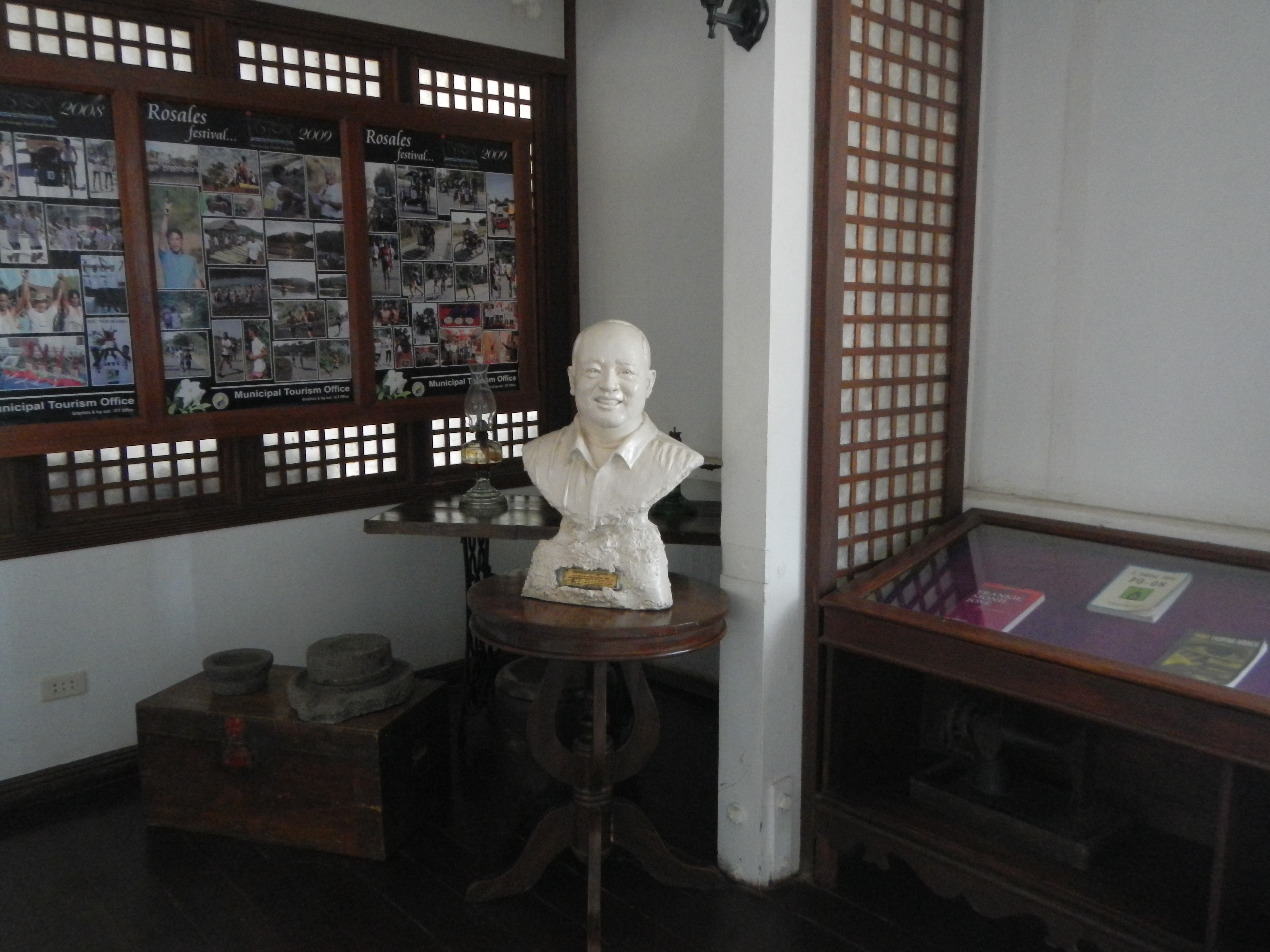 F. Sionil José or in full Francisco Sionil José[1]